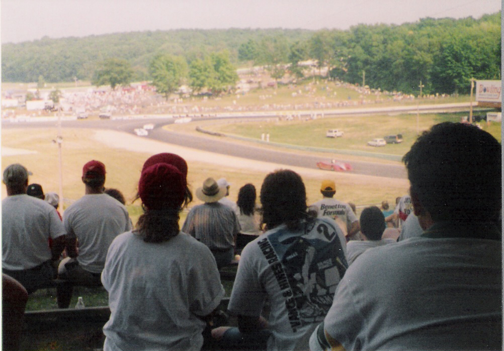 The photo is looking west at Turn 5. The frontstretch hill is in the background. The photo was taken at a June Sprints event in June 1995. It was taken on a Sunday. I took the pic myself. I relinquish all rights.